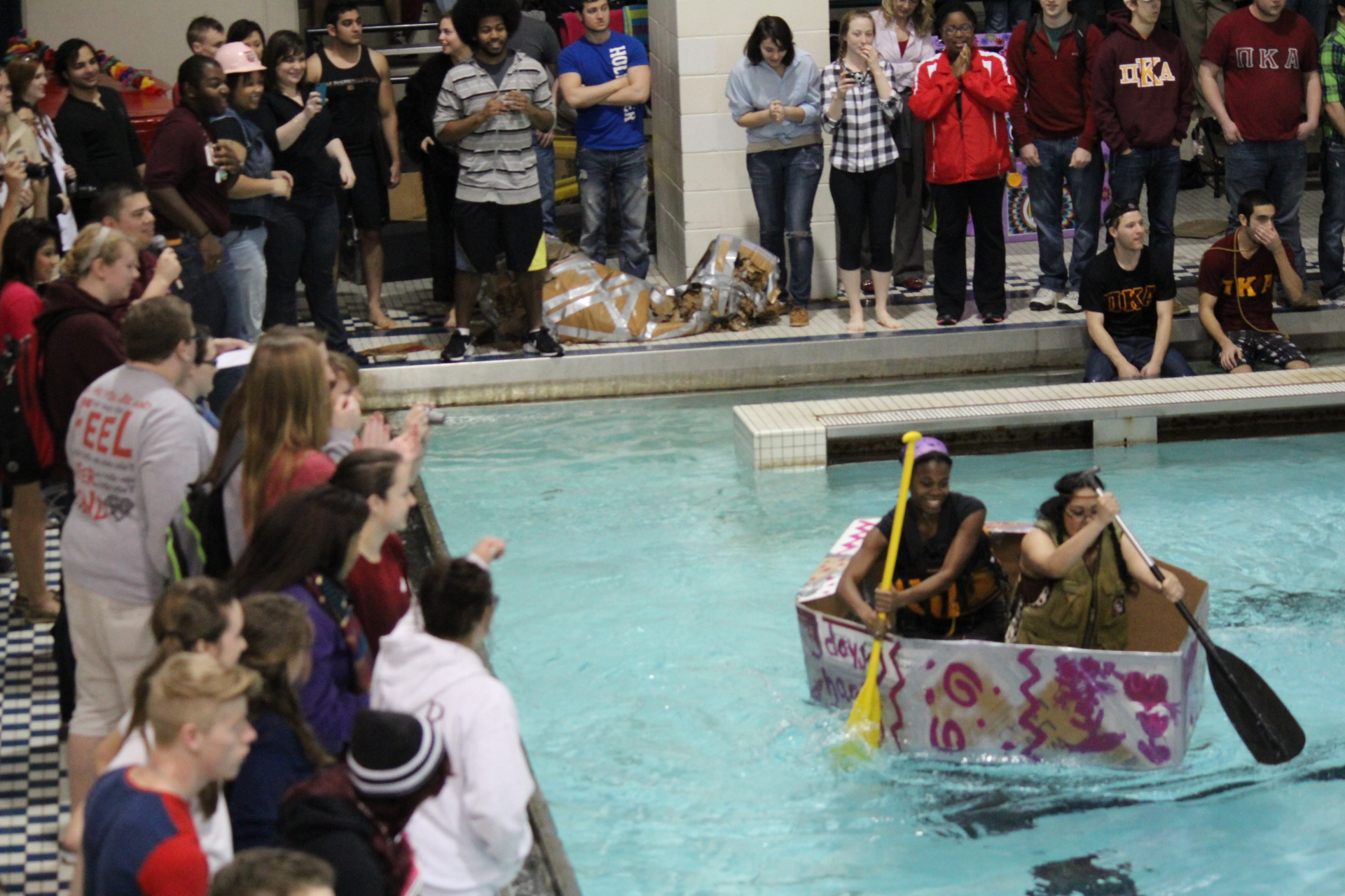 UALR homecoming boat regatta